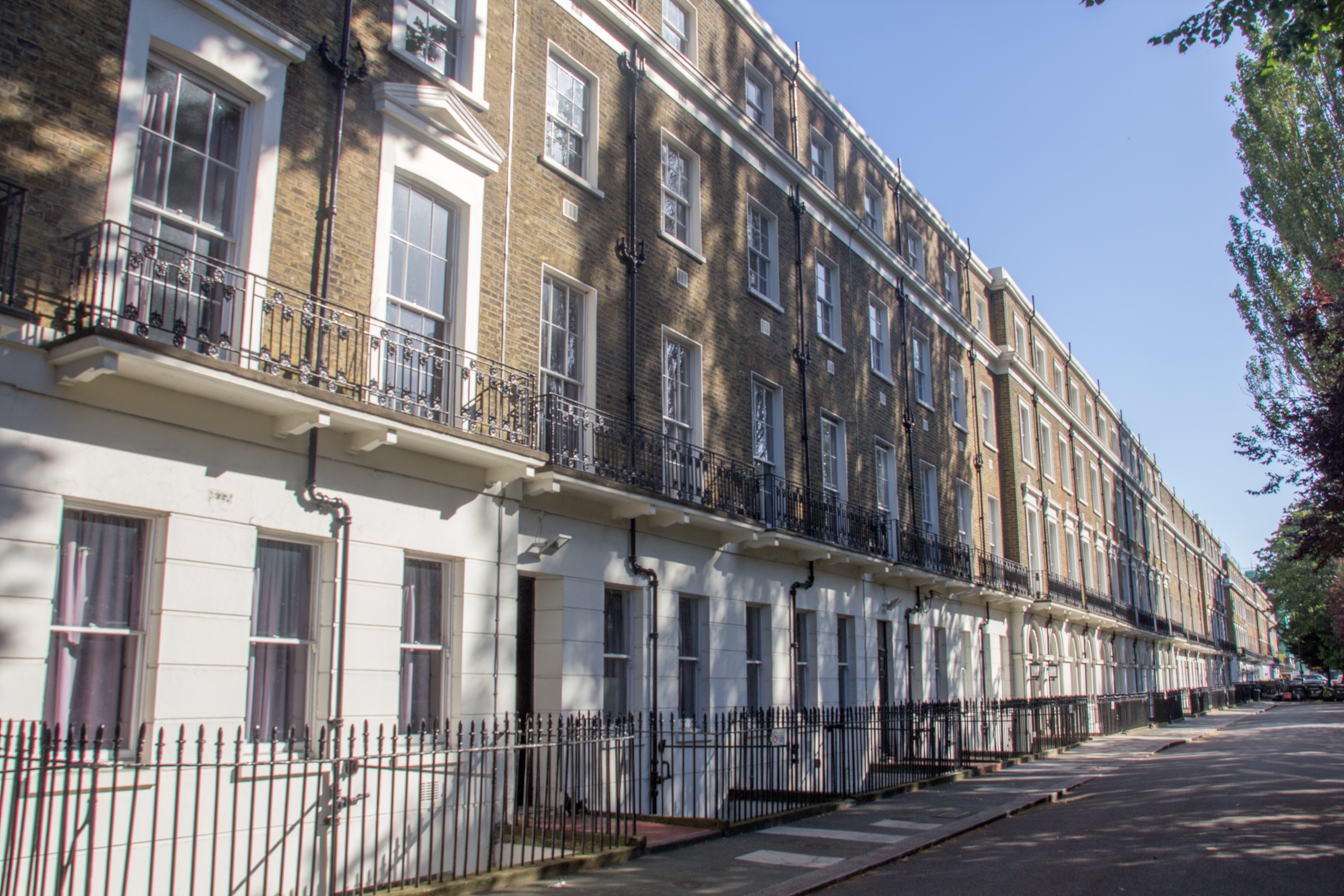 Wilson House, London, UK